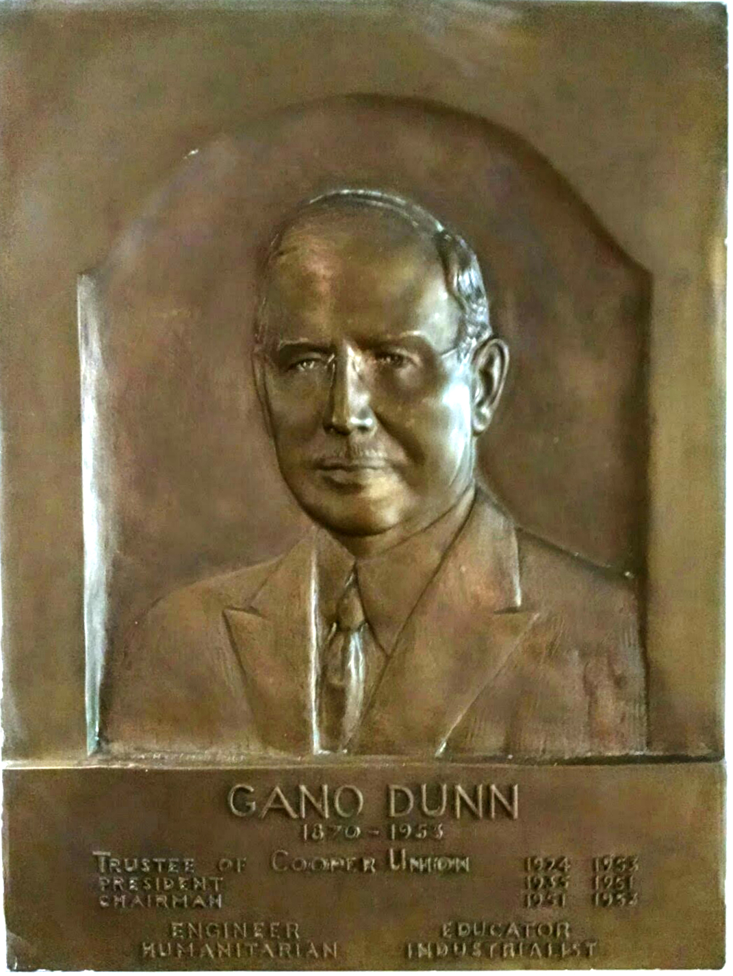 Plaque honoring Gano Dunn, at Cooper Union, 41 Cooper Square, New York, NY 10003. Text Reads: GANO DUNN 1870-1953 TRUSTEE OF COOPER UNION 1924 1953 PRESIDENT 1936 1951 CHAIRMAN 1951 1953 ENGINEER EDUCATOR HUMANITARIAN INDUSTRIALIST